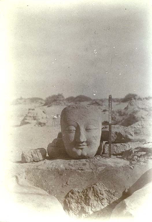 View of excavated Buddha head from ruin M.I.I, Miran, December 1906.